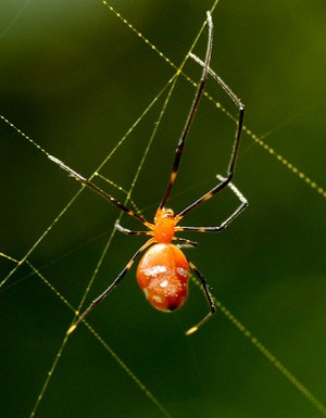 Argyrodes flavescens in a web ob Nephila pilipies